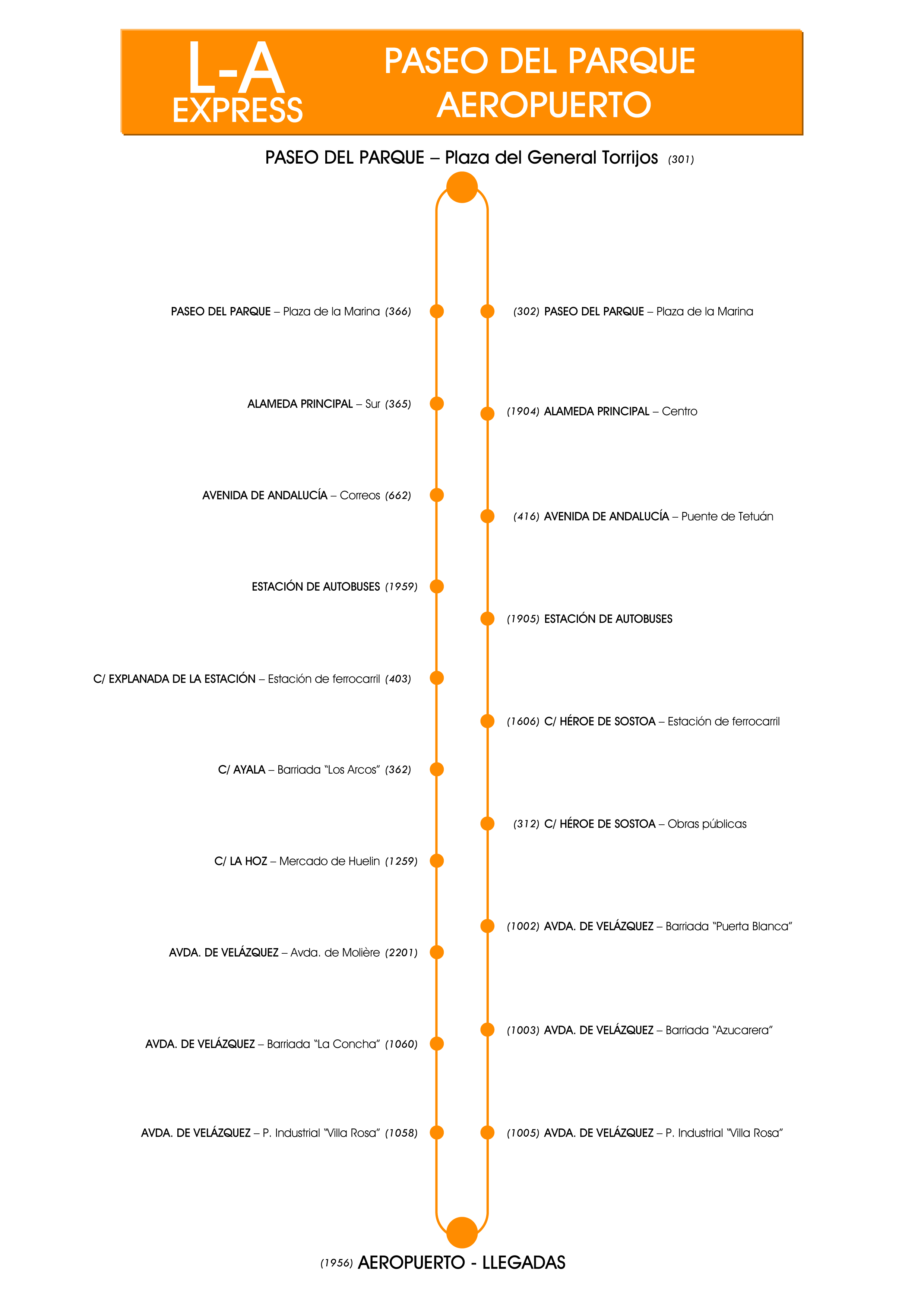 Route of the Line 10 of EMTSAM